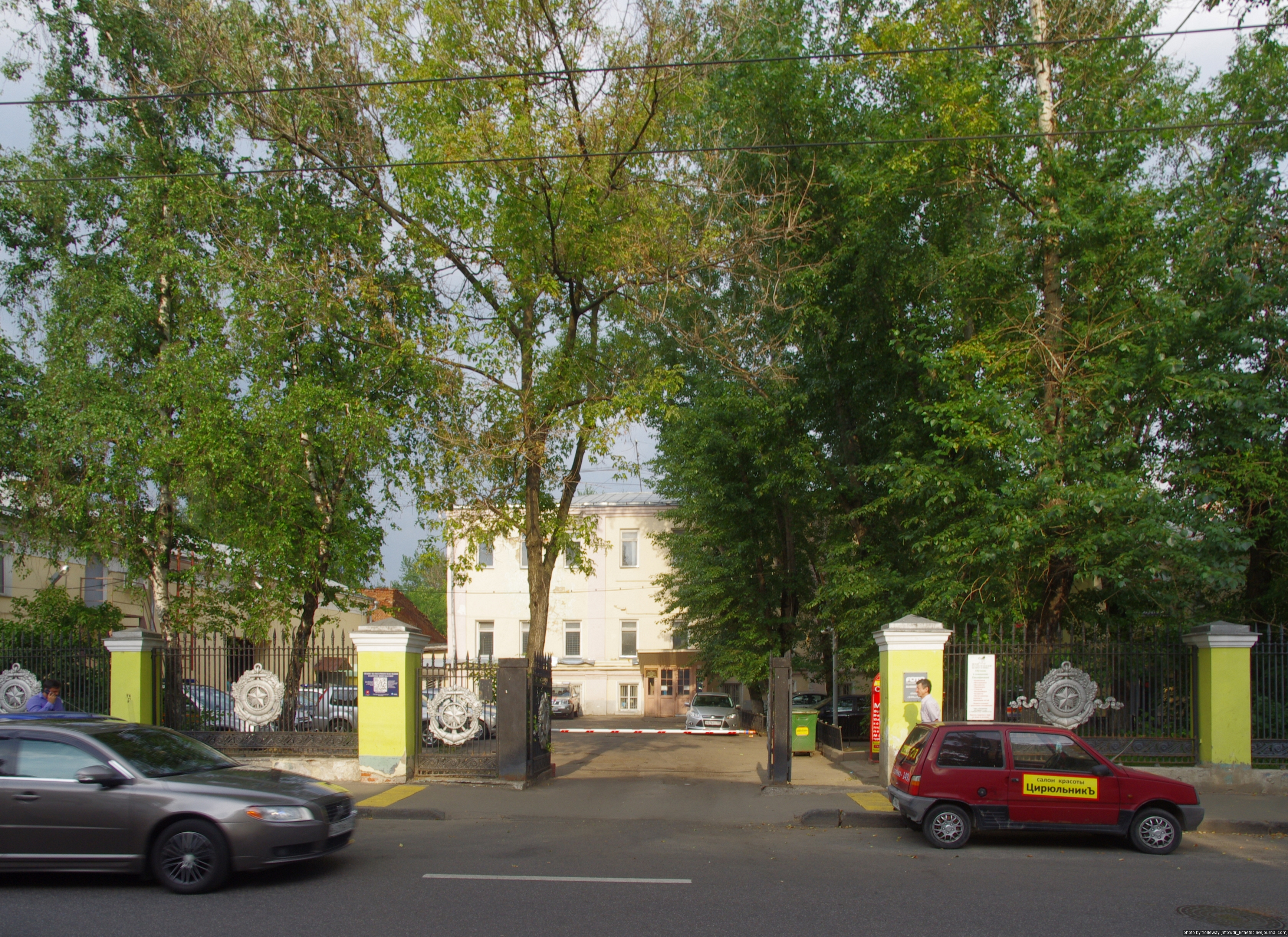 Bolshaya Ordynka Street 19 - Zamoskvorechye District, Moscow, Russia